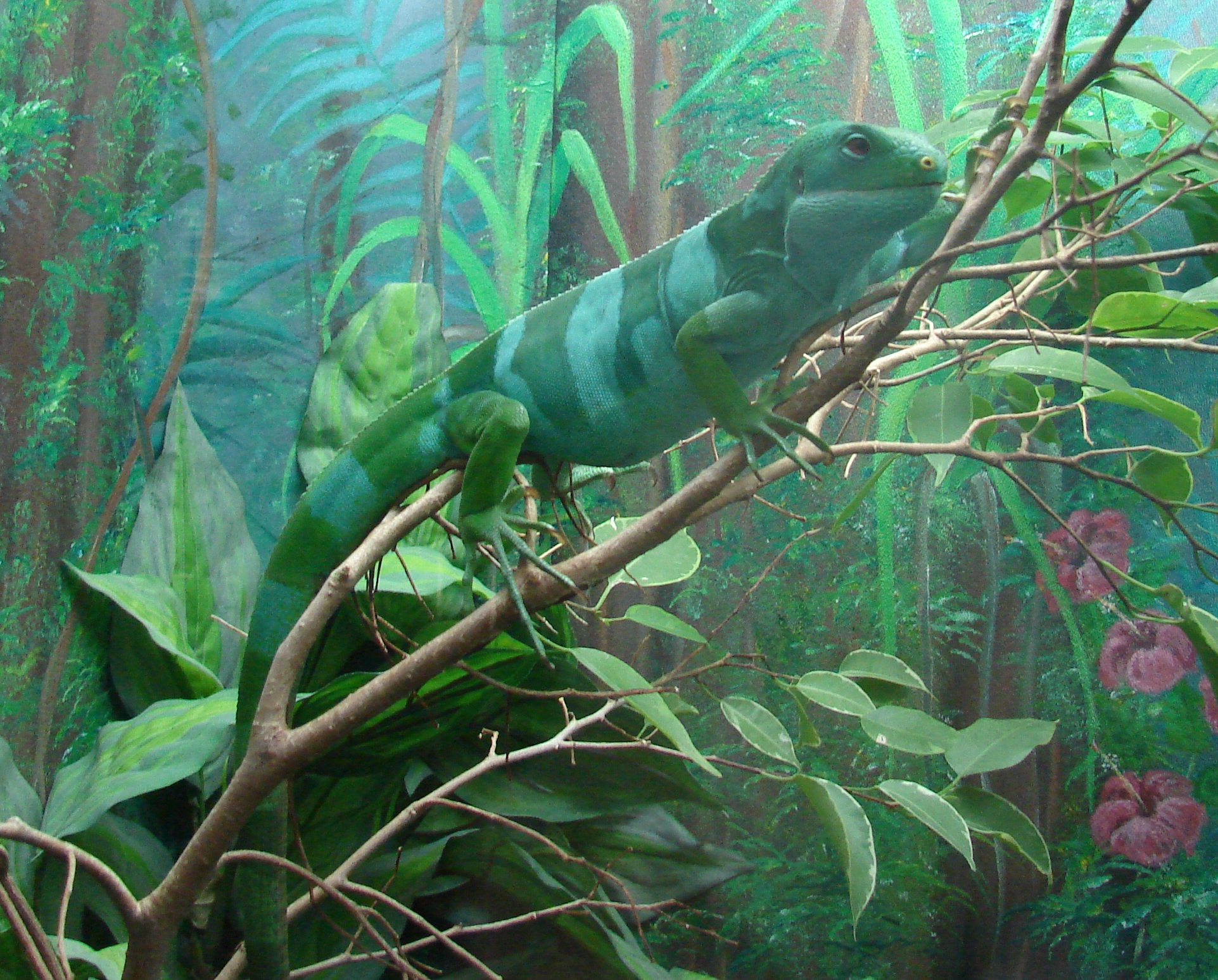 Fiji Banded Iguana (Brachylophus fasciatus) taken at San Antonio Zoo